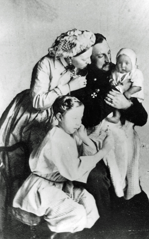 Grand duke Nicholas Nicholaievich of Russia his wife Alexandra and their two children